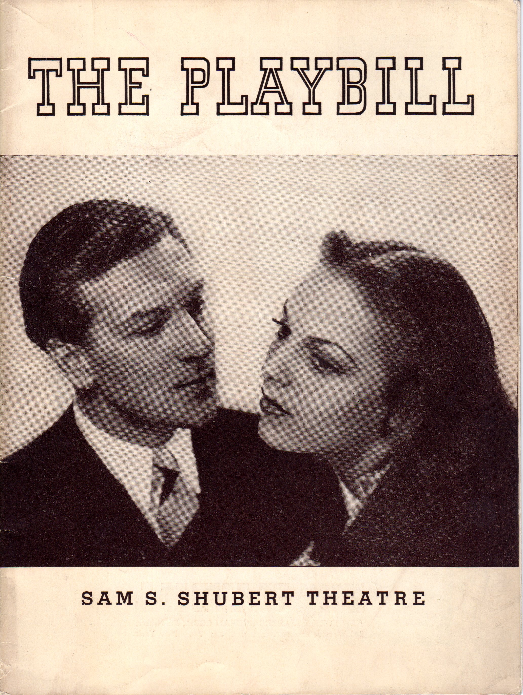 Original 1938 playbill from "I Married an Angel" starring Vera Zorina. From the Vera Zorina Collection at Ailina Dance Archives.